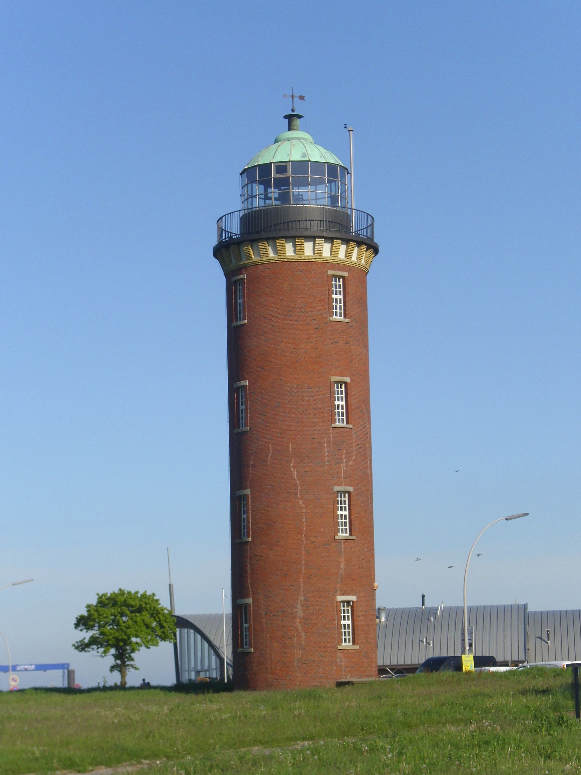 Lighthouse in Cuxhaven, Germany